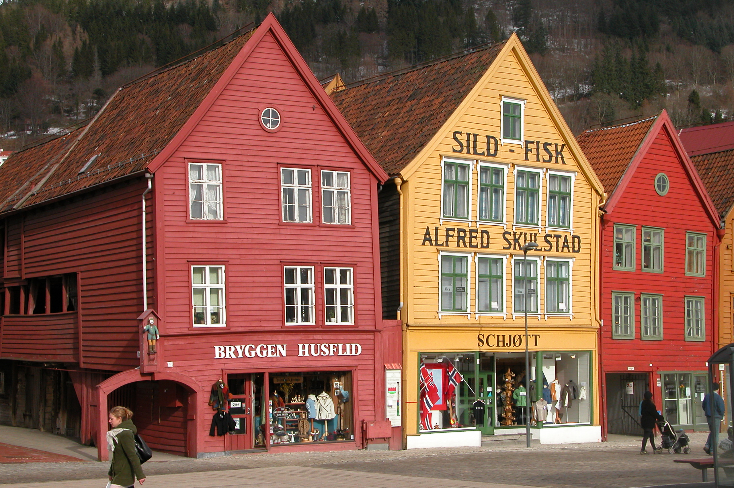 Bryggen (Norwegian for the Wharf), also known as Tyskebryggen (the German Wharf) is a series of Hanseatic commercial buildings lining the eastern side of the fjord coming into Bergen, Norway.